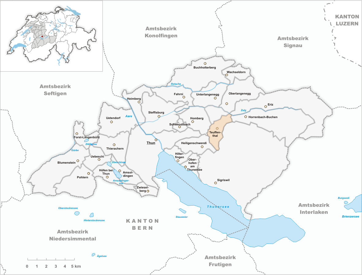 Municipality Teuffenthal